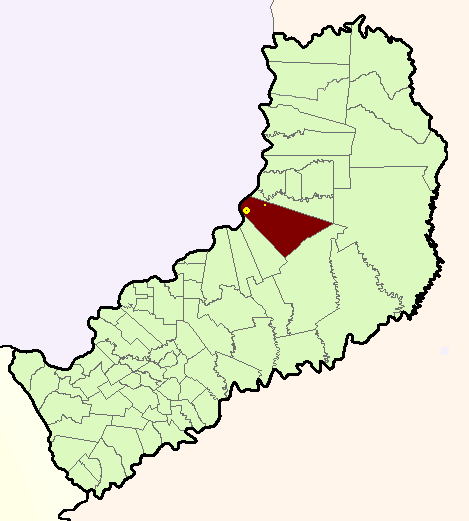 A map of Montecarlo's municipio in Misiones province, Argentina. The big point is Montecarlo city, the little one is Laharrague town.